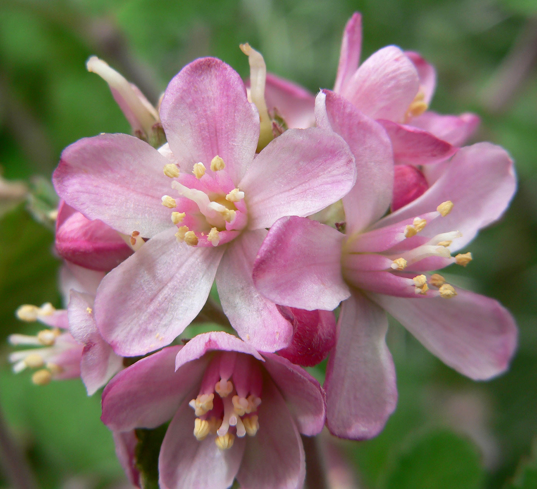 Jamesia americana in avalanche chute left of the South Loop trail where it ascends out of the chute, Kyle Canyon, Spring Mountains, southern Nevada (elev. about 2700 m)